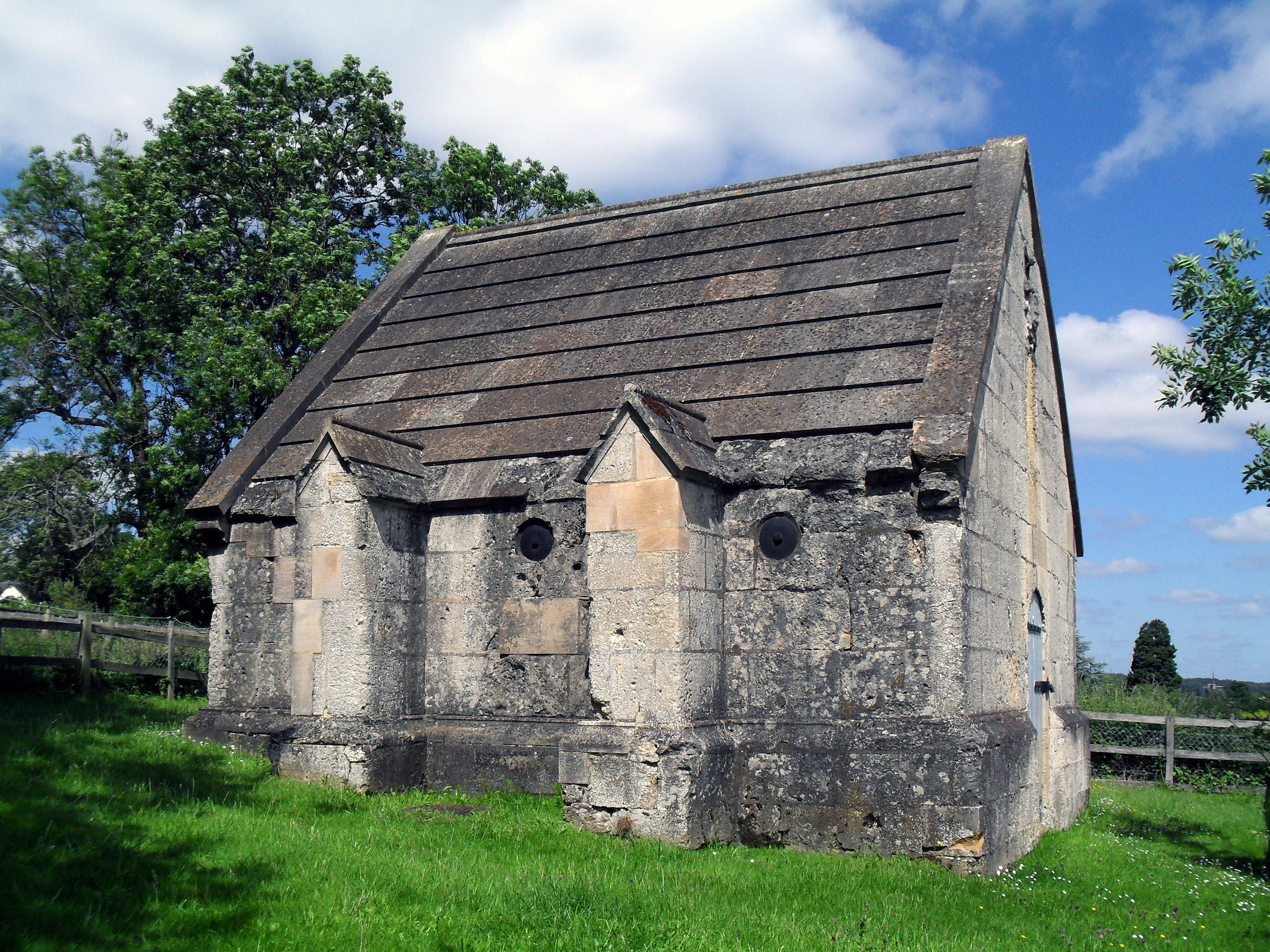 Conduit House or Well House on Harcourt Hill, North Hinksey, Oxfordshire. Built in 1610 as the well house for the public water supply to Carfax in central Oxford.